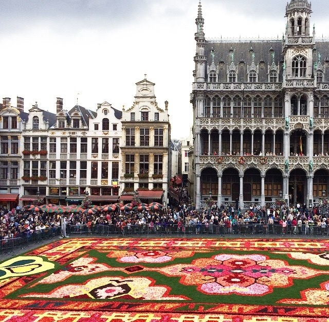 Flower Carpet in Grand Place, Belgium.